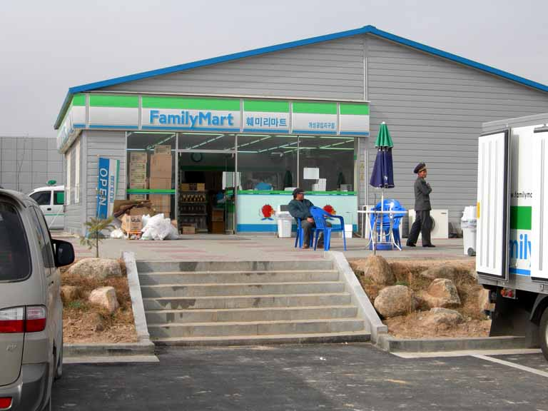 Family Mart (Convenience Store) in Kaesong (Gaesong) Industrial Area, DPRK